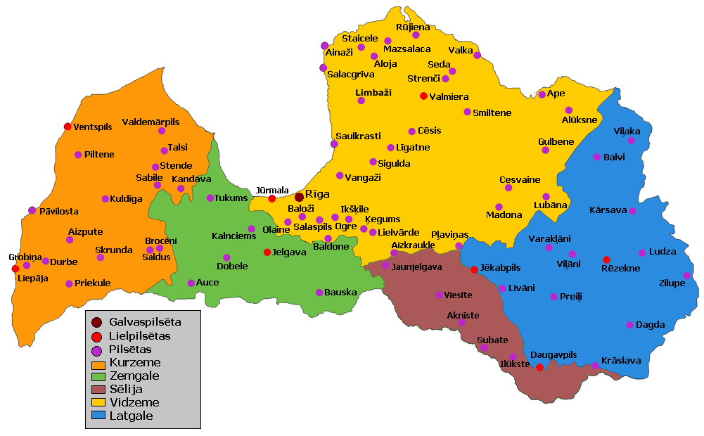 Map of Latvian cities within the country's historical regions